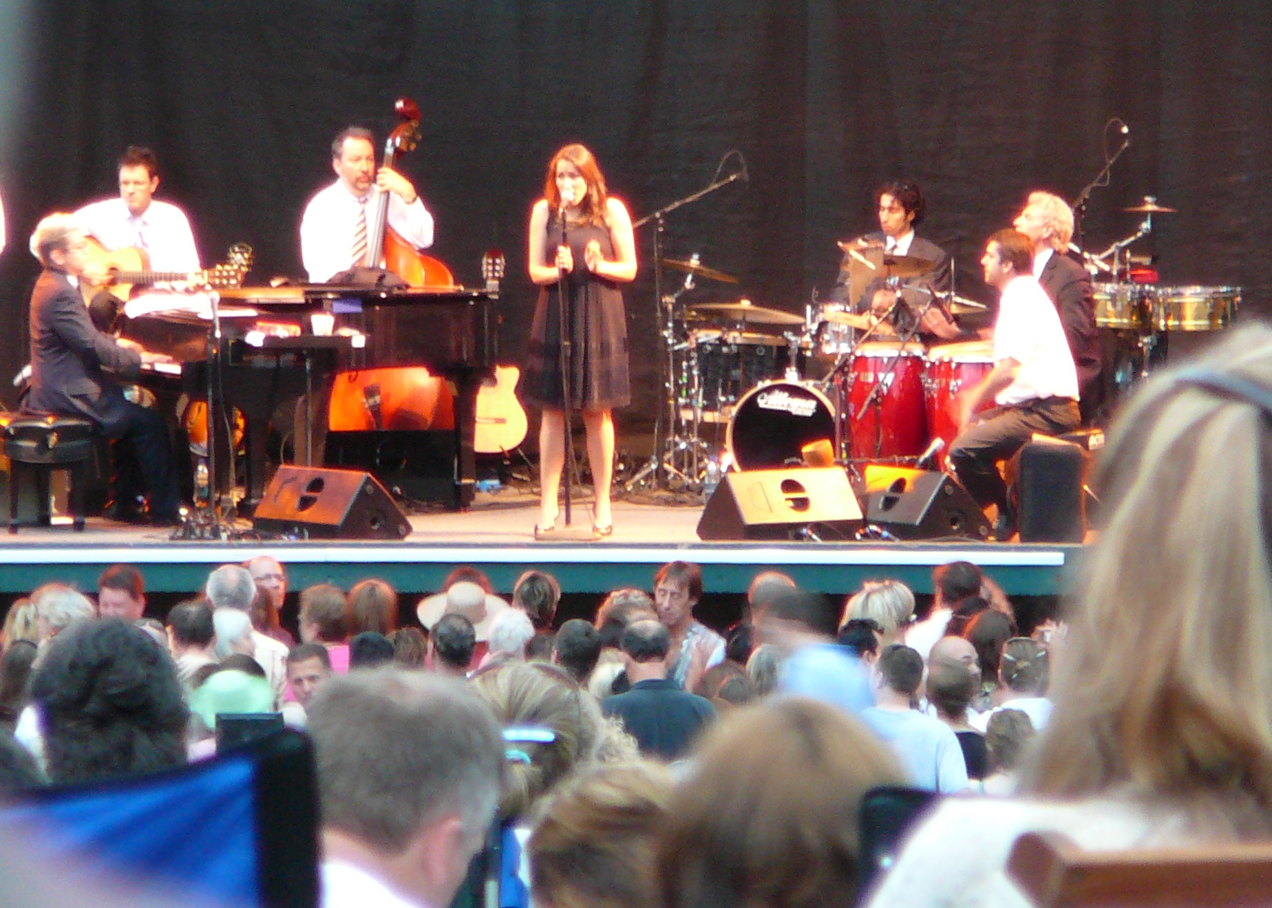 Pink Martini at the Oregon Zoo